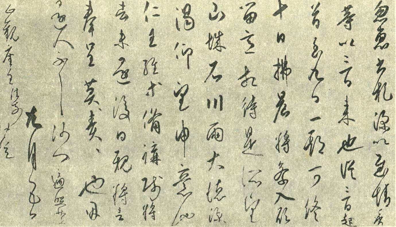 Huushincho, written by Kūkai, owned by Touji Temple, Kyoto.